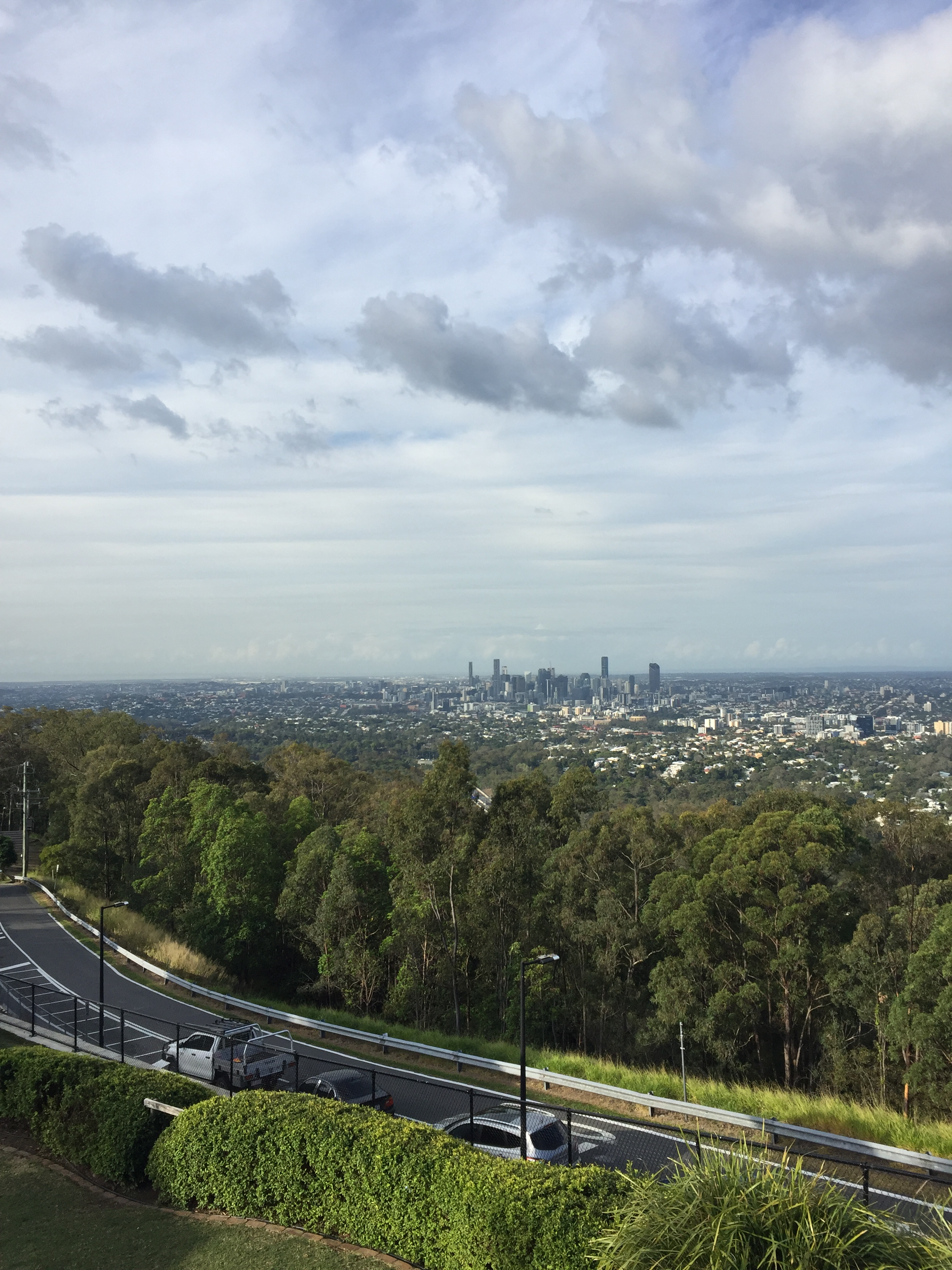 The view towards Brisbane CBD from Mount Coot-Tha.